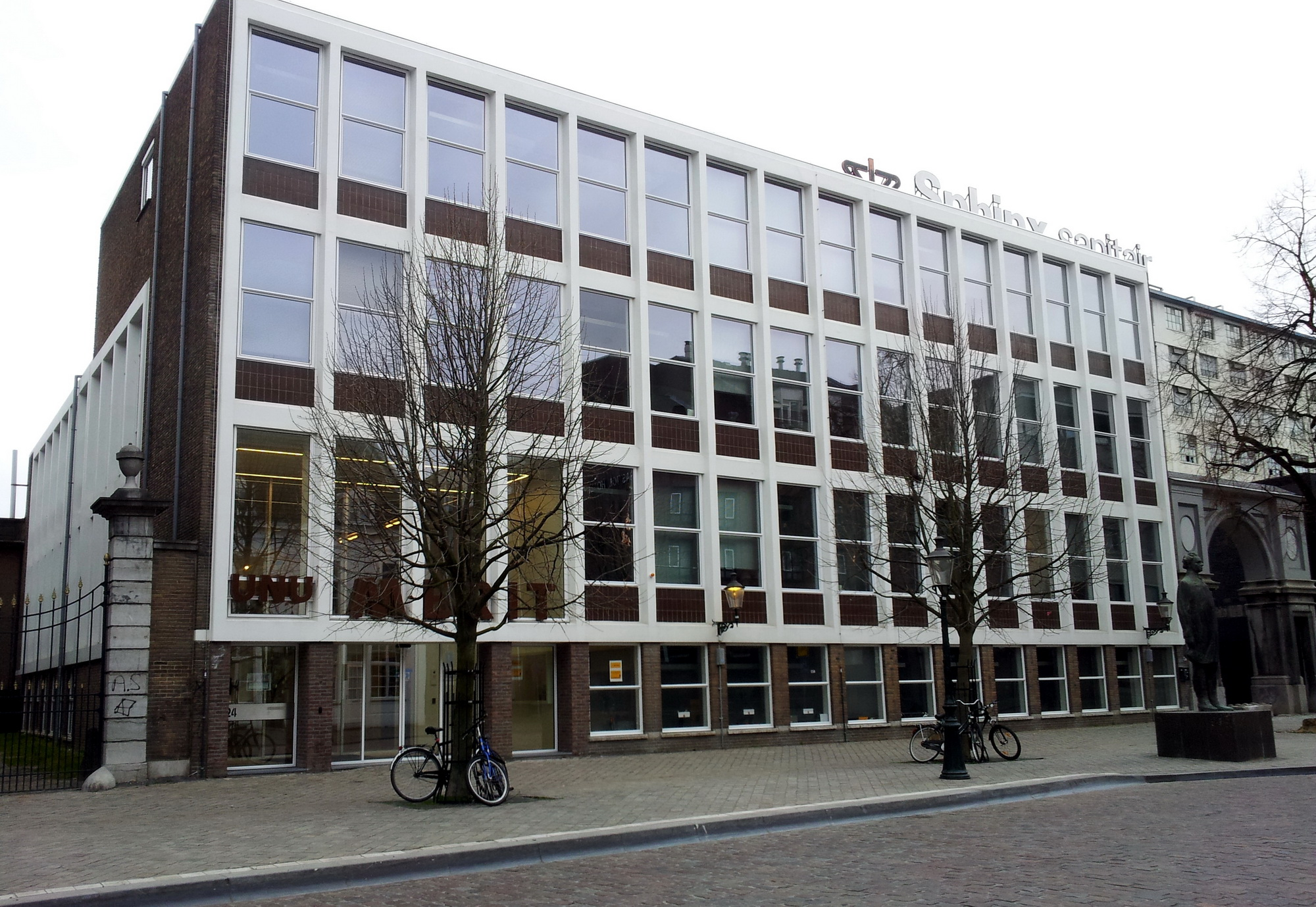 Maastricht, the Netherlands. View of UNU-Merit, a United Nations research institute, since 2015 based in the former offices of Royal Sphinx potteries in Boschstraat.